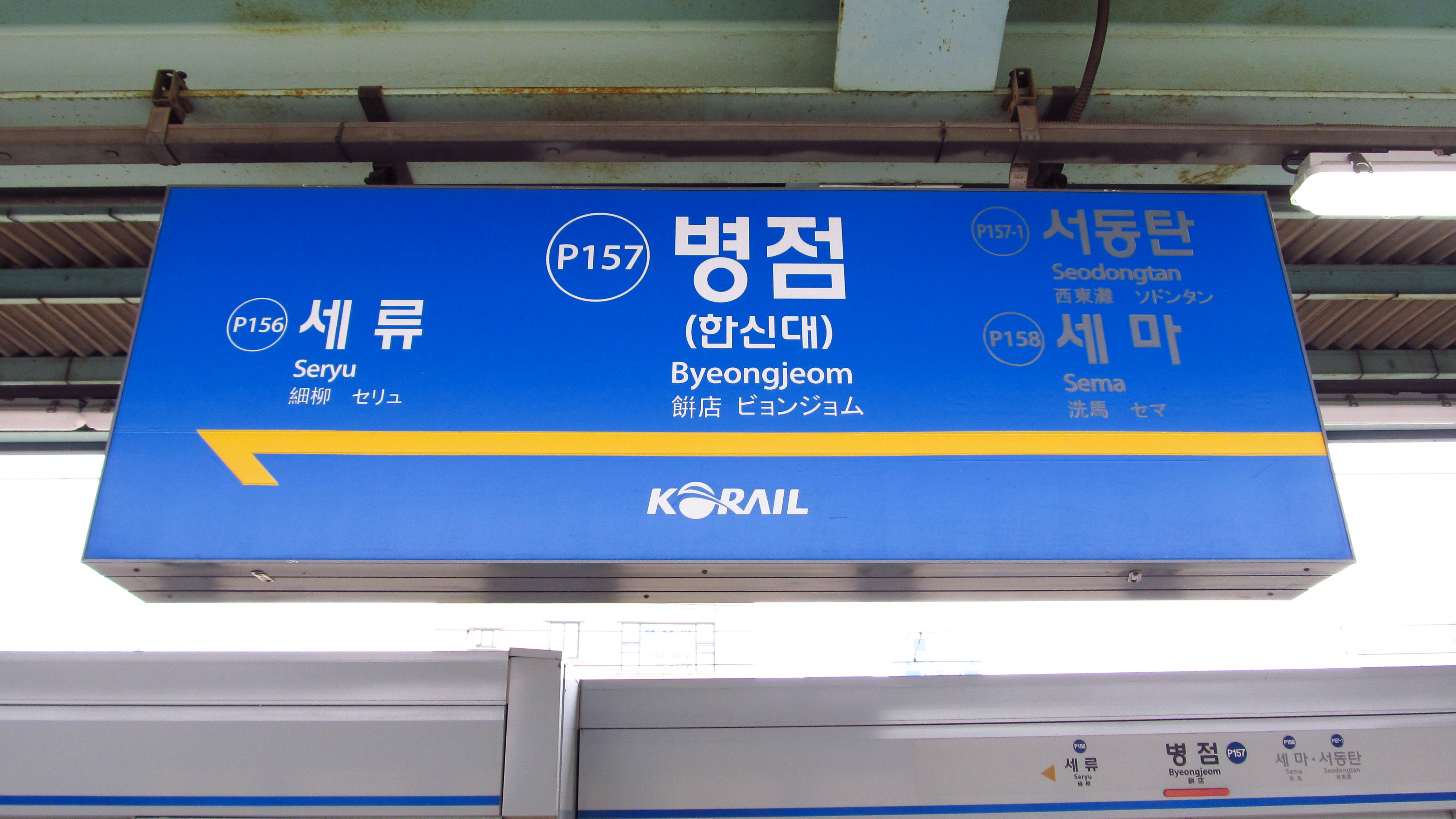 A sign of Byeongjeom Station on Seoul Subway Line 1